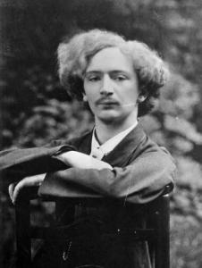 poet and author Algernon Charles Swinburne, in approximately 1870